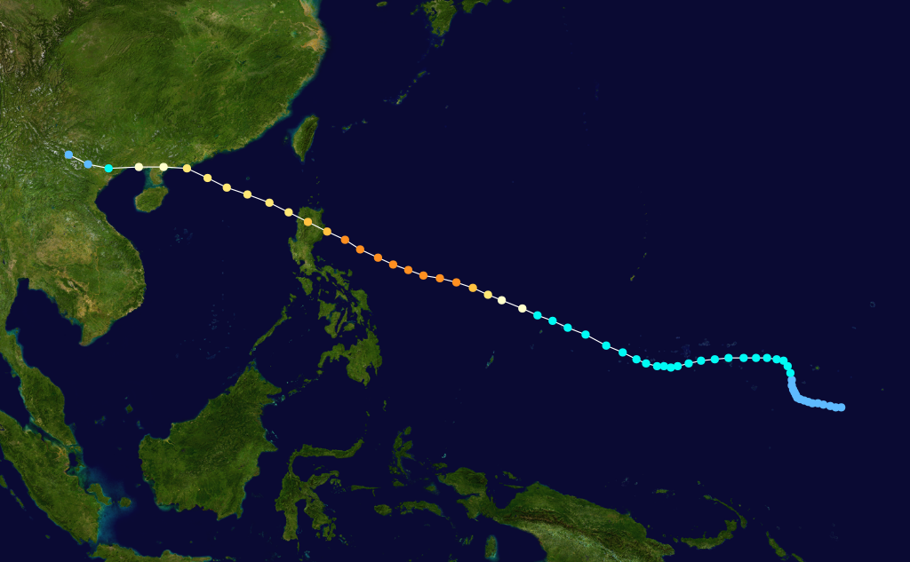 Typhoon Koryn (1993) track. Uses the color scheme from the Saffir-Simpson Hurricane Scale.